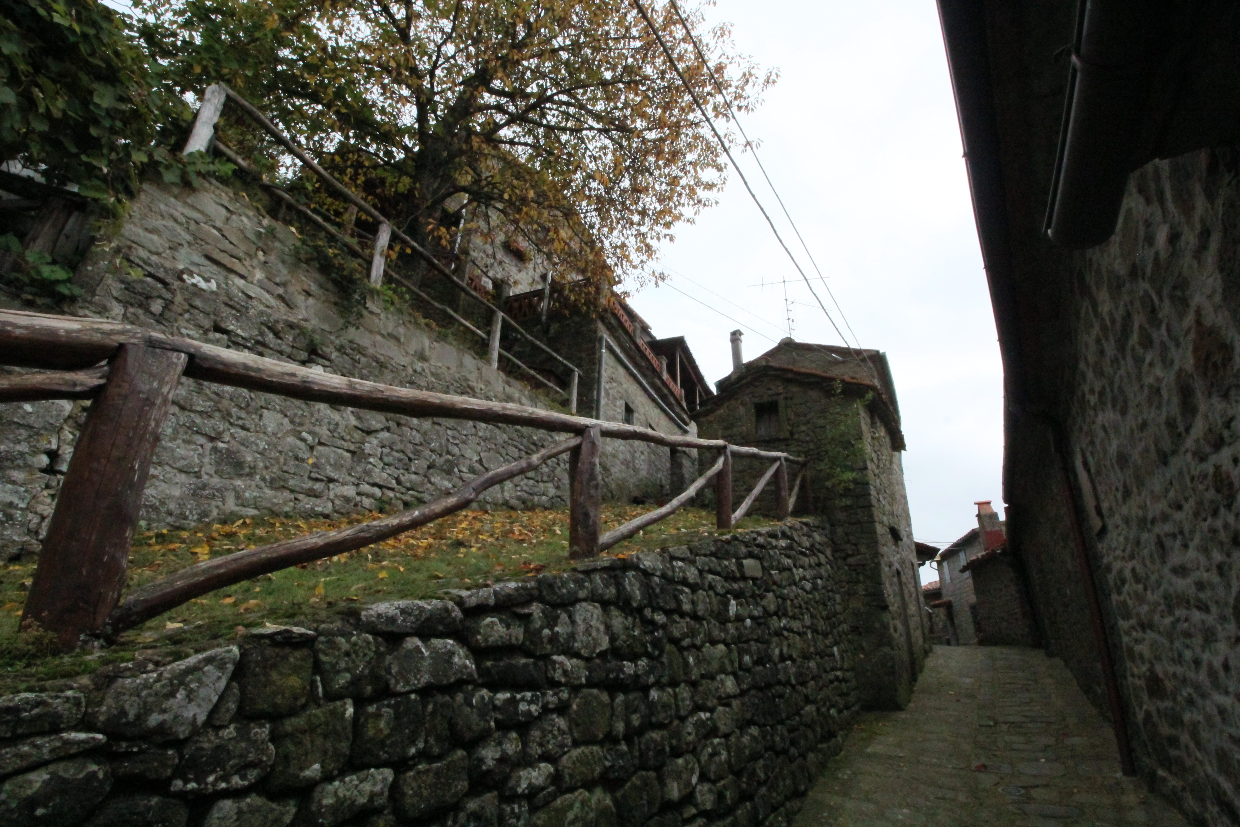 Village of Anciolina, hamlet of Loro Ciuffenna, Province of Arezzo, Tuscany, Italy